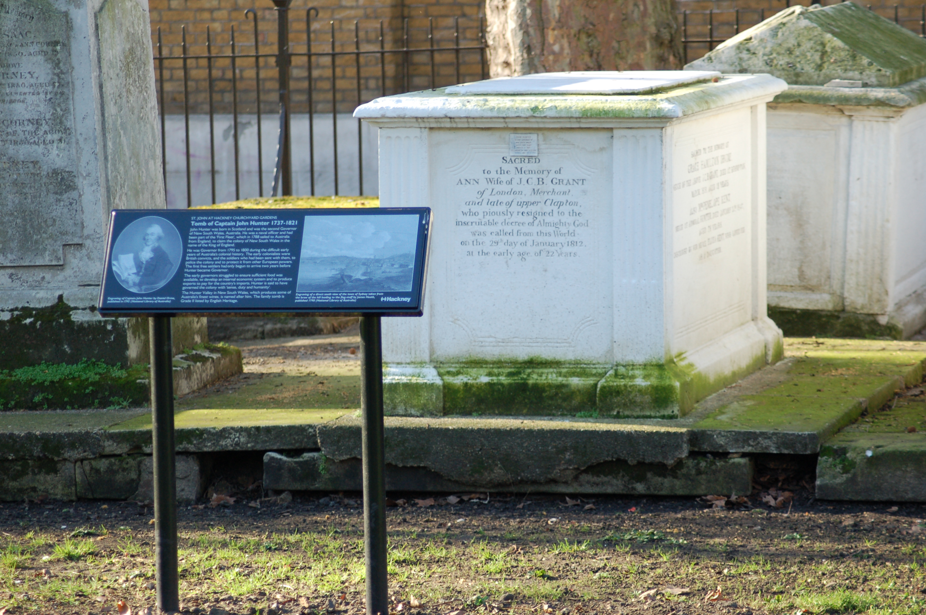 John Hunter tomb in Church of St John-at-Hackney pls respect licensing and attribution